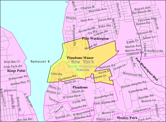 U.S. Census 2000 reference map for Plandome Manor